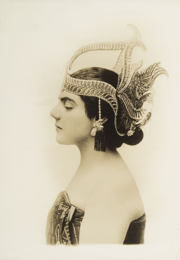 Eva Gauthier, with a Javanese Headdress